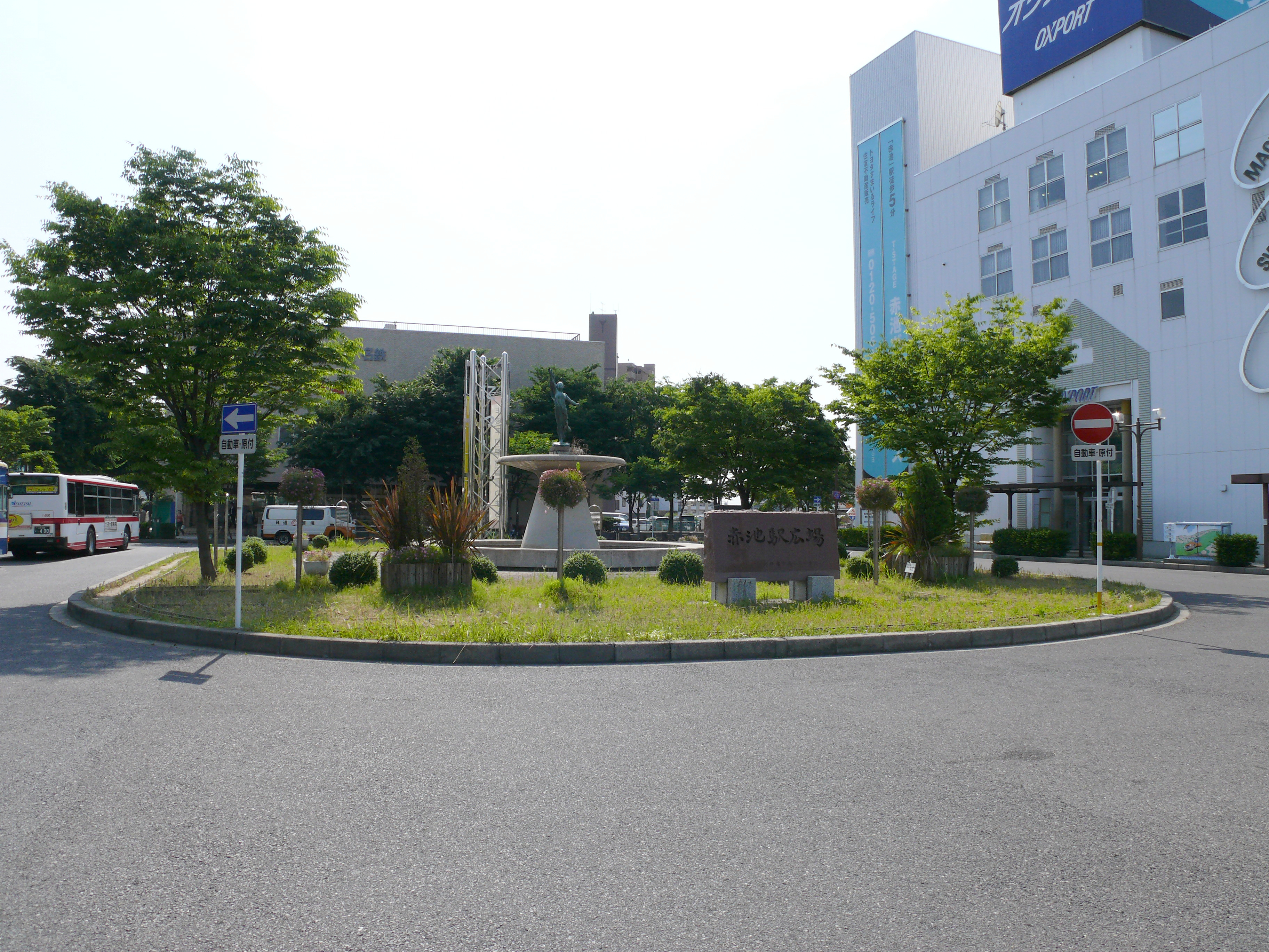 Turumai&Meitetsu Toyota Line Akaike Station of Rotary.